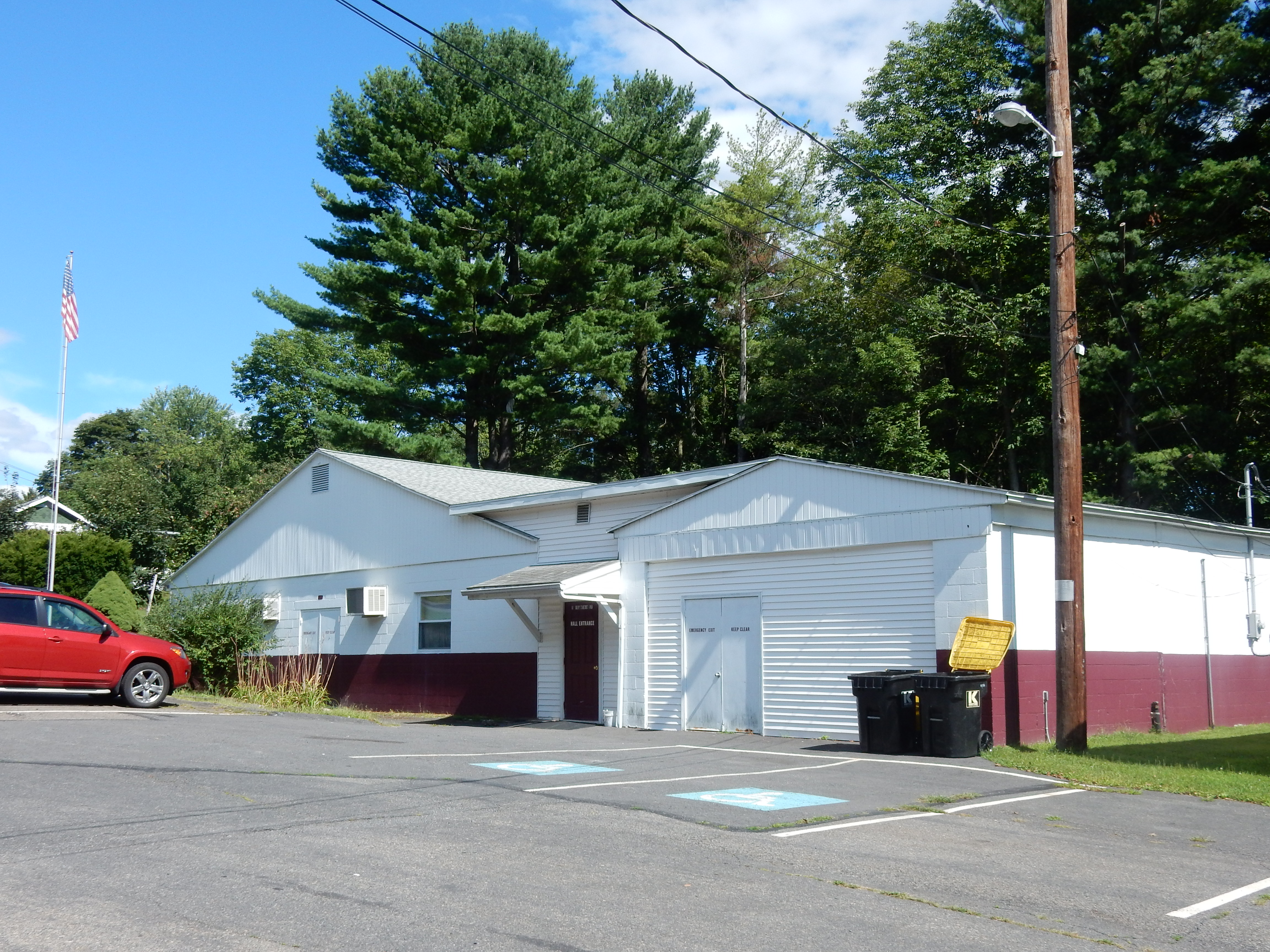 Butler Township Hall, Fountain St., Fountain Springs, Butler Township, Schuylkill County, Pennsylvania.